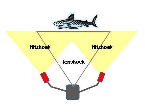 wide angle lights